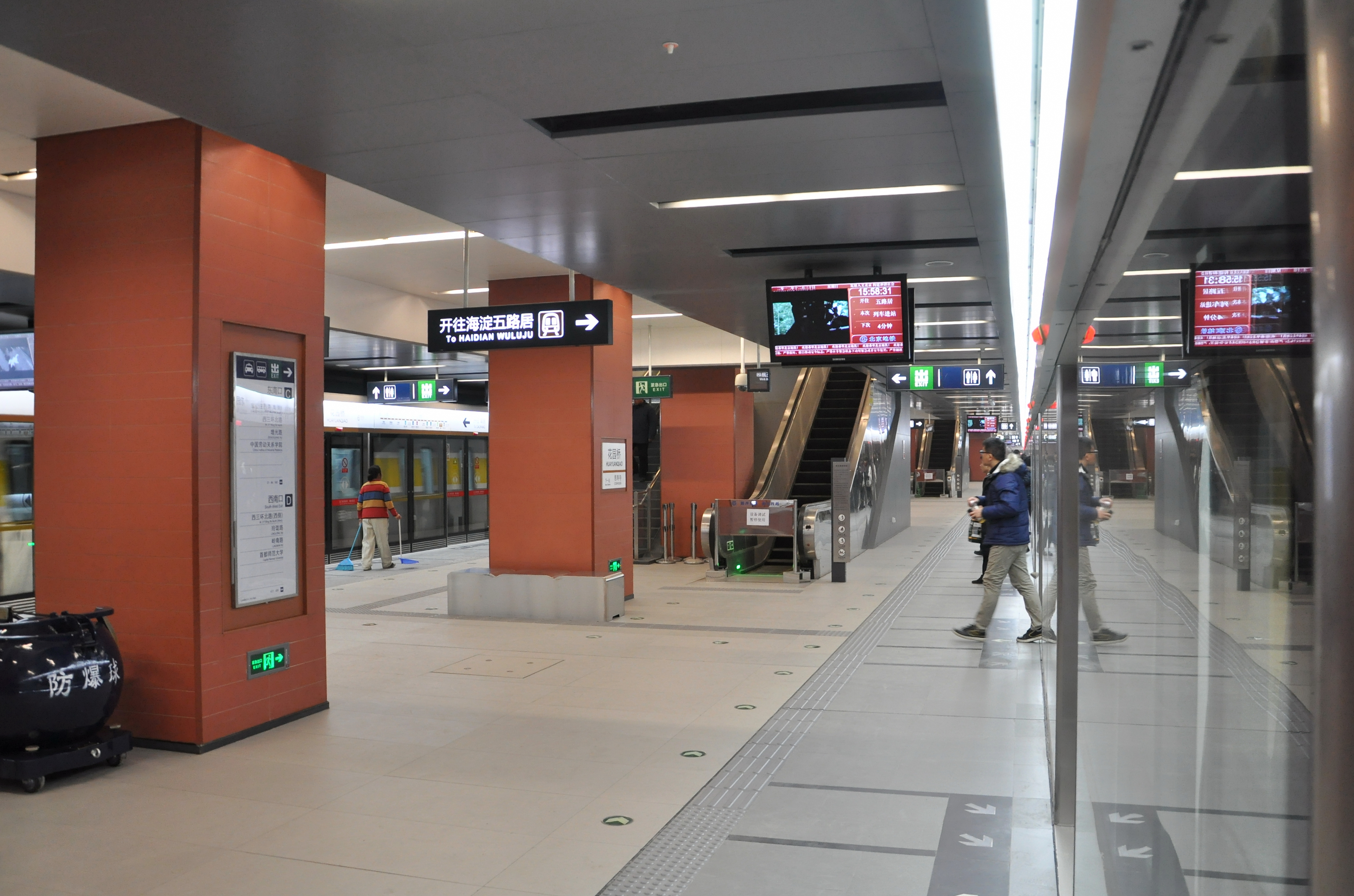 Platform of Huayuanqiao station, Line 6, Beijing Subway.